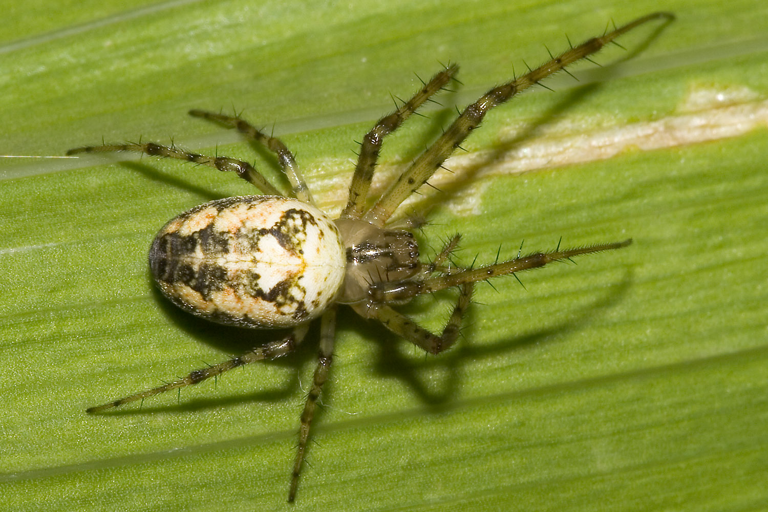 Unidentified spider of genus Metellina, maybe M. segmentata